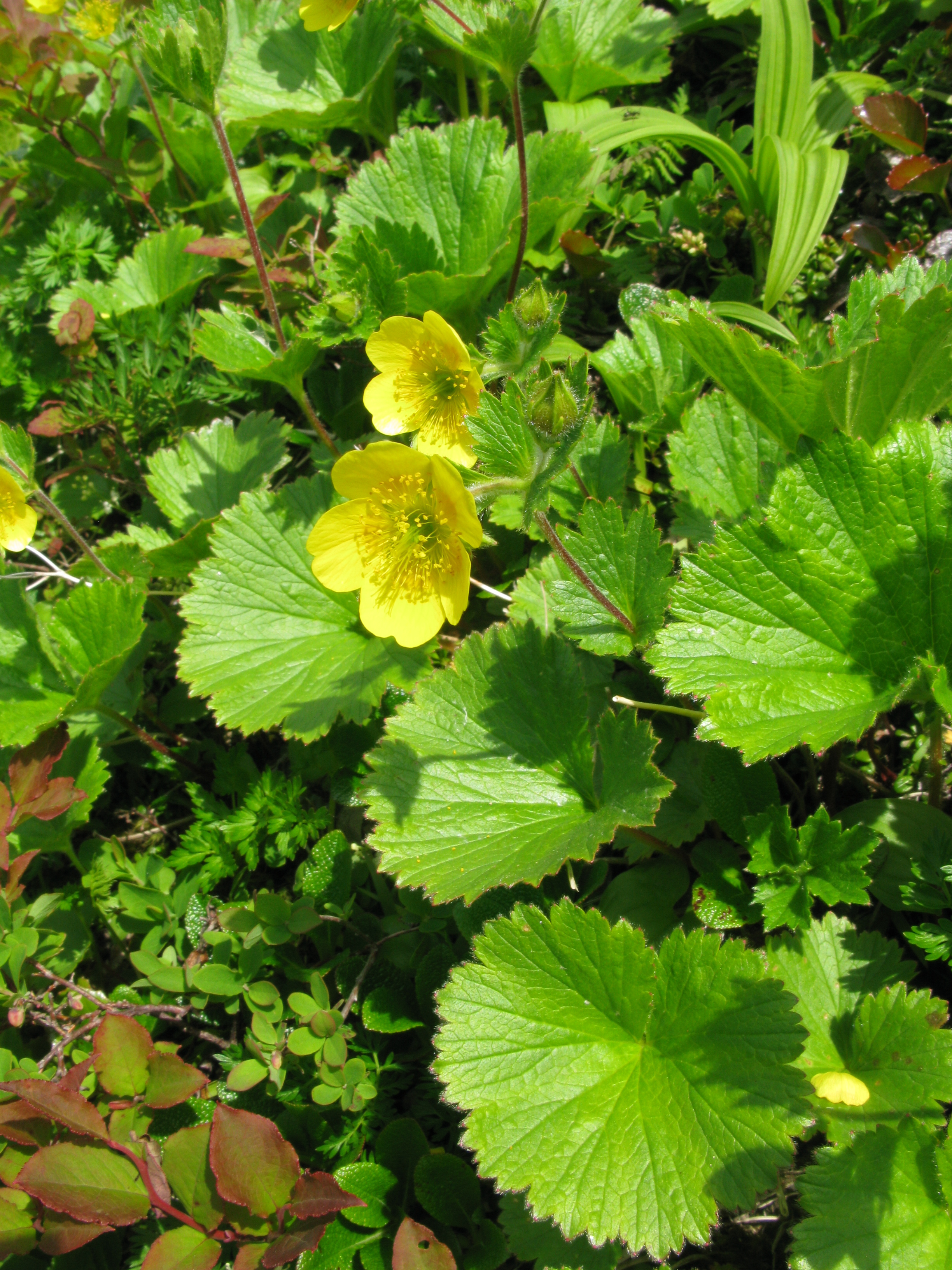 Geum calthifolium, Mount Iide, Fukushima pref., Japan